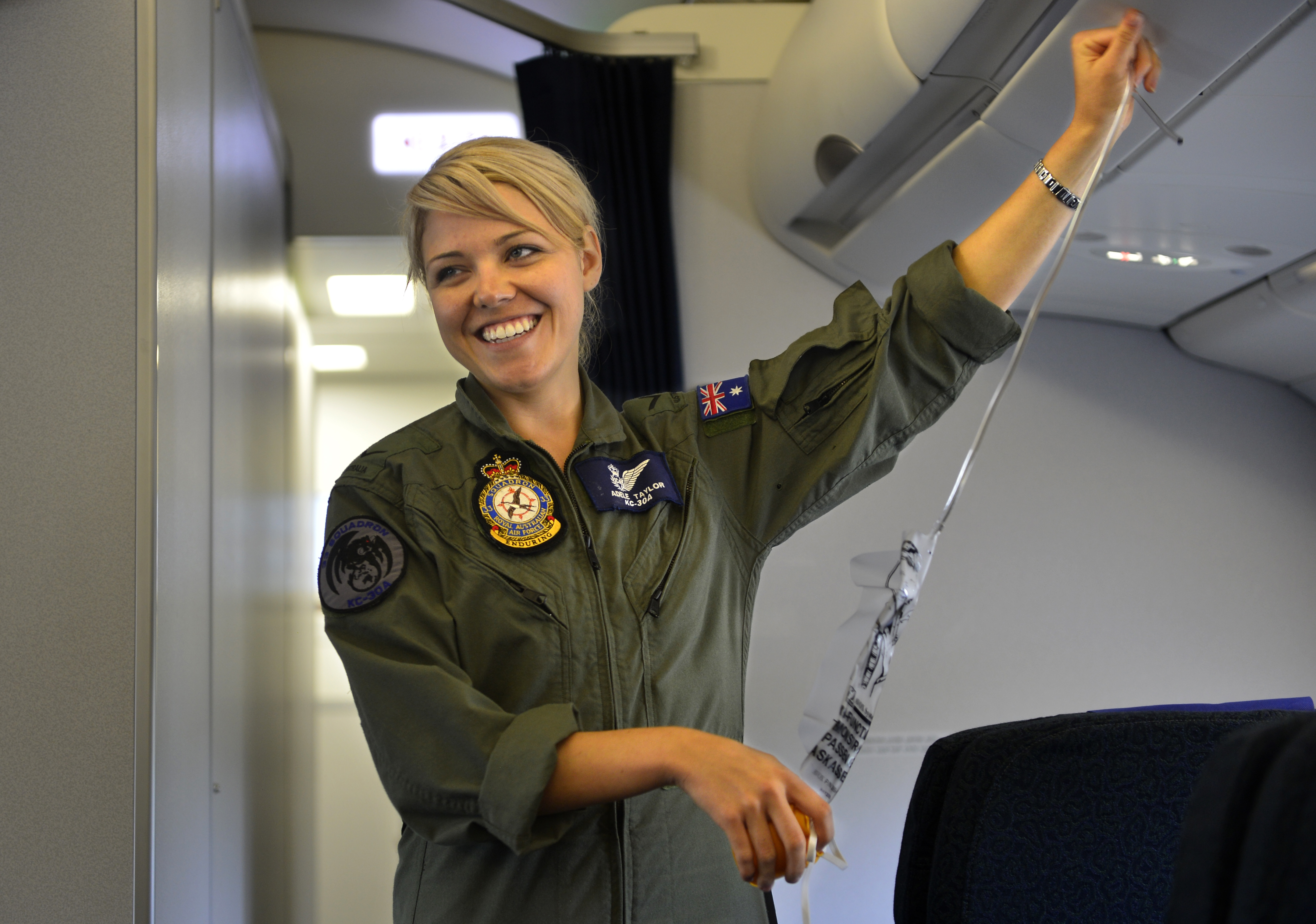 Royal Australian Air Force Leading Aircraftswoman Adele Taylor gives a safety brief to passengers aboard the KC-30A Multi Roll Tanker Transport (MRTT) before a flight in support of Cope North 13 on Anderson Air Force Base, Guam, Feb. 13, 2013. Cope North is an annual air combat tactics, humanitarian assistance and disaster relief exercise designed to increase the readiness and interoperability of the U.S. Air Force, Japan Air Self-Defense Force and Royal Australian Air Force.